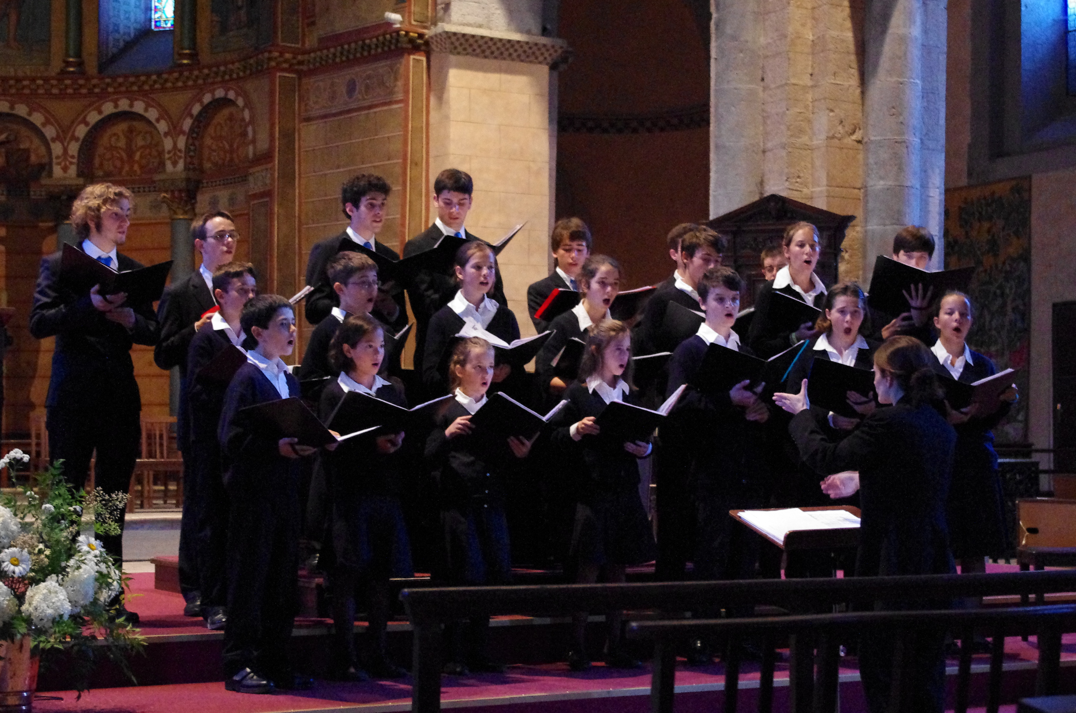 Les Petits Chanteurs de Passy in concert in the collegiate church Saint-Pierre et Saint-Gaudens in Saint-Gaudens (Haute-Garonne), in 2010.